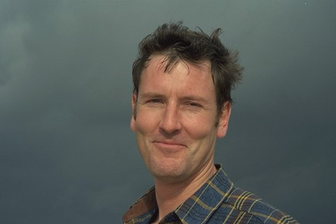 Portrait Michel Dancoisne-Martineau